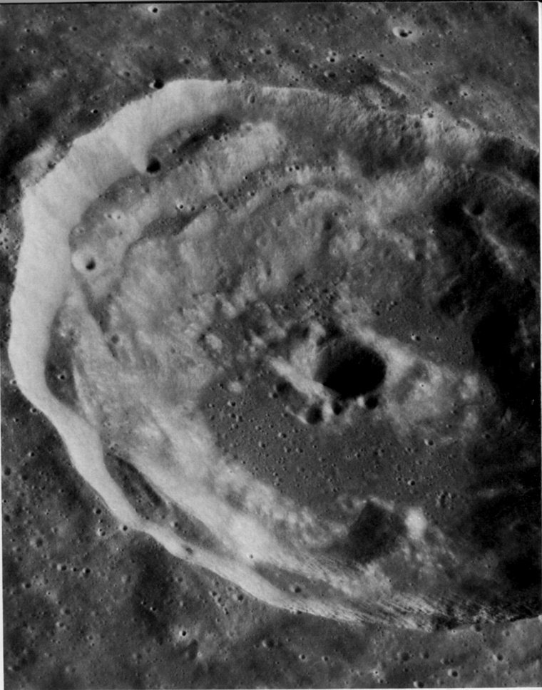 Oblique view of part of Timocharis, on the moon. This is Figure 142 of Apollo Over the Moon (NASA SP-362, 1978), which has the following caption: This oblique view of the crater Timocharis in southeastern Mare Imbrium illustrates how the original diameter of a crater is enlarged by slumping of its walls. Its present diameter is about 35 km. The sparsity of small superposed craters on the walls of Timocharis-in contrast to their density on its floor and rim is caused by the erosive effect of downslope movement of material on the steep walls. Timocharis, like many other young impact craters of similar size, possesses a well-defined central peak complex. Such structures are believed to result from elastic rebound of the bedrock immediately after the impacting event. However, the central peak of Timocharis apparently has been substantially modified by a large superimposed crater.-G.G.S.